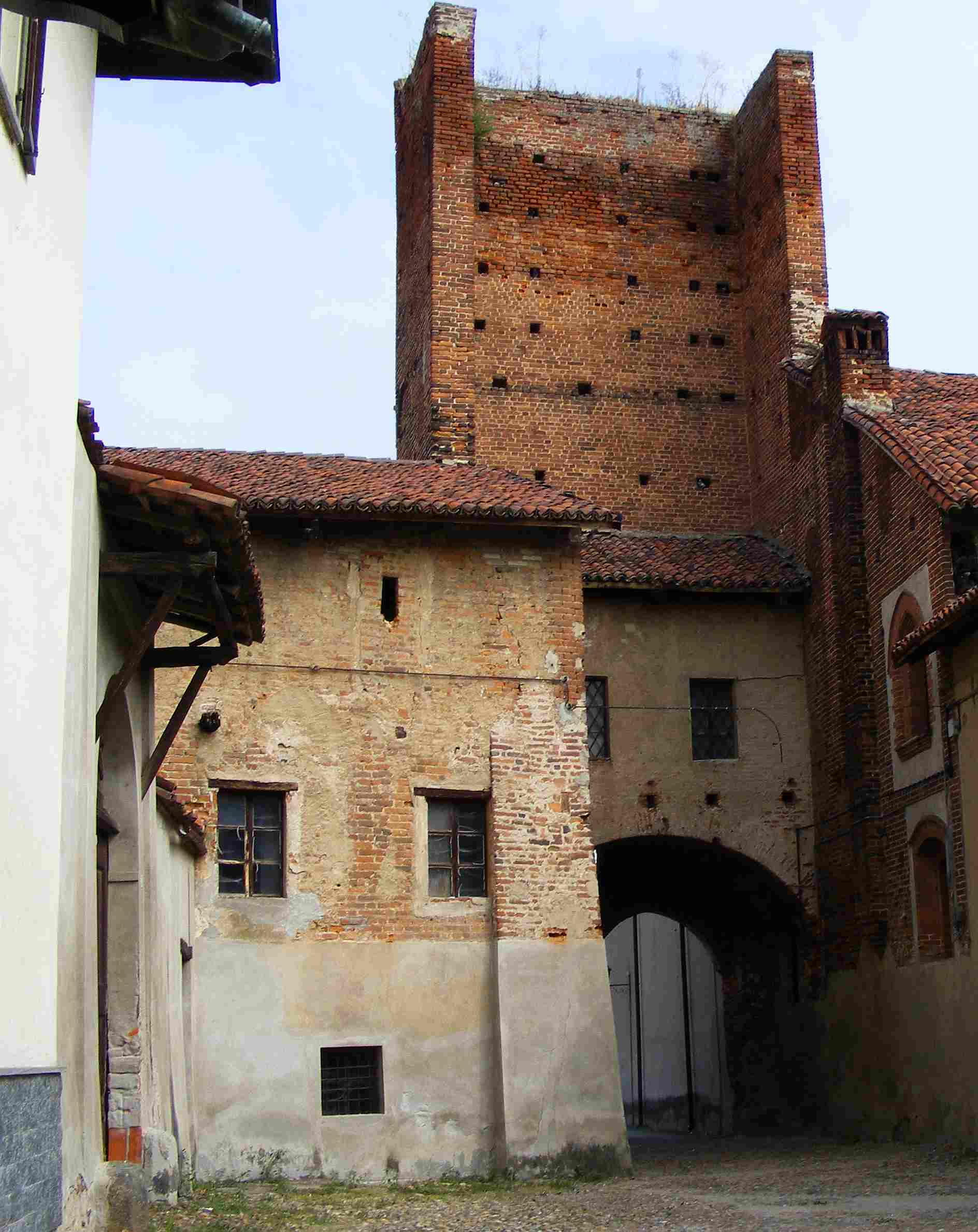 Collobiano castle (VC, Italy)